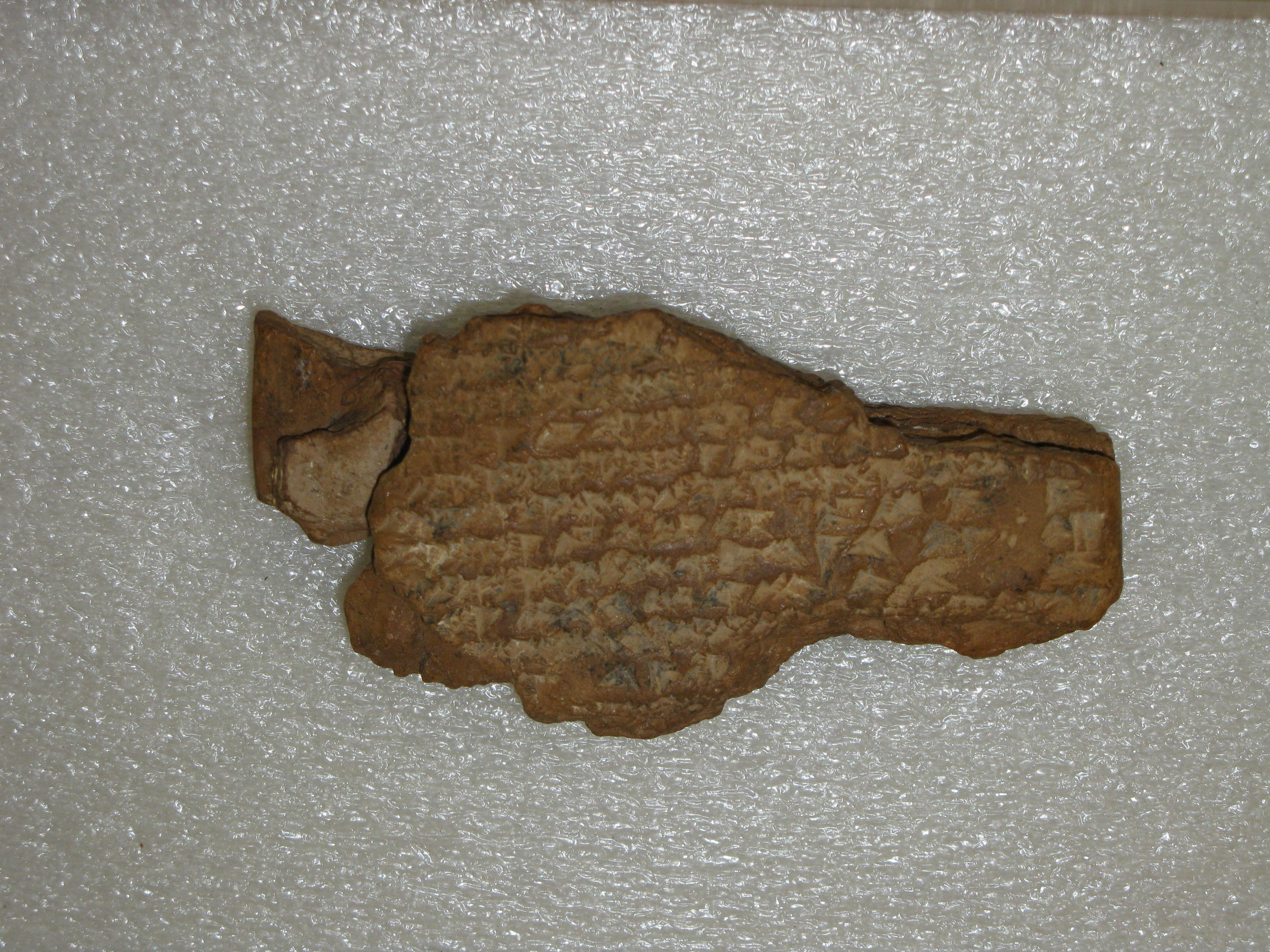 Seleucid; Cuneiform tablet; Clay-Tablets-Inscribed